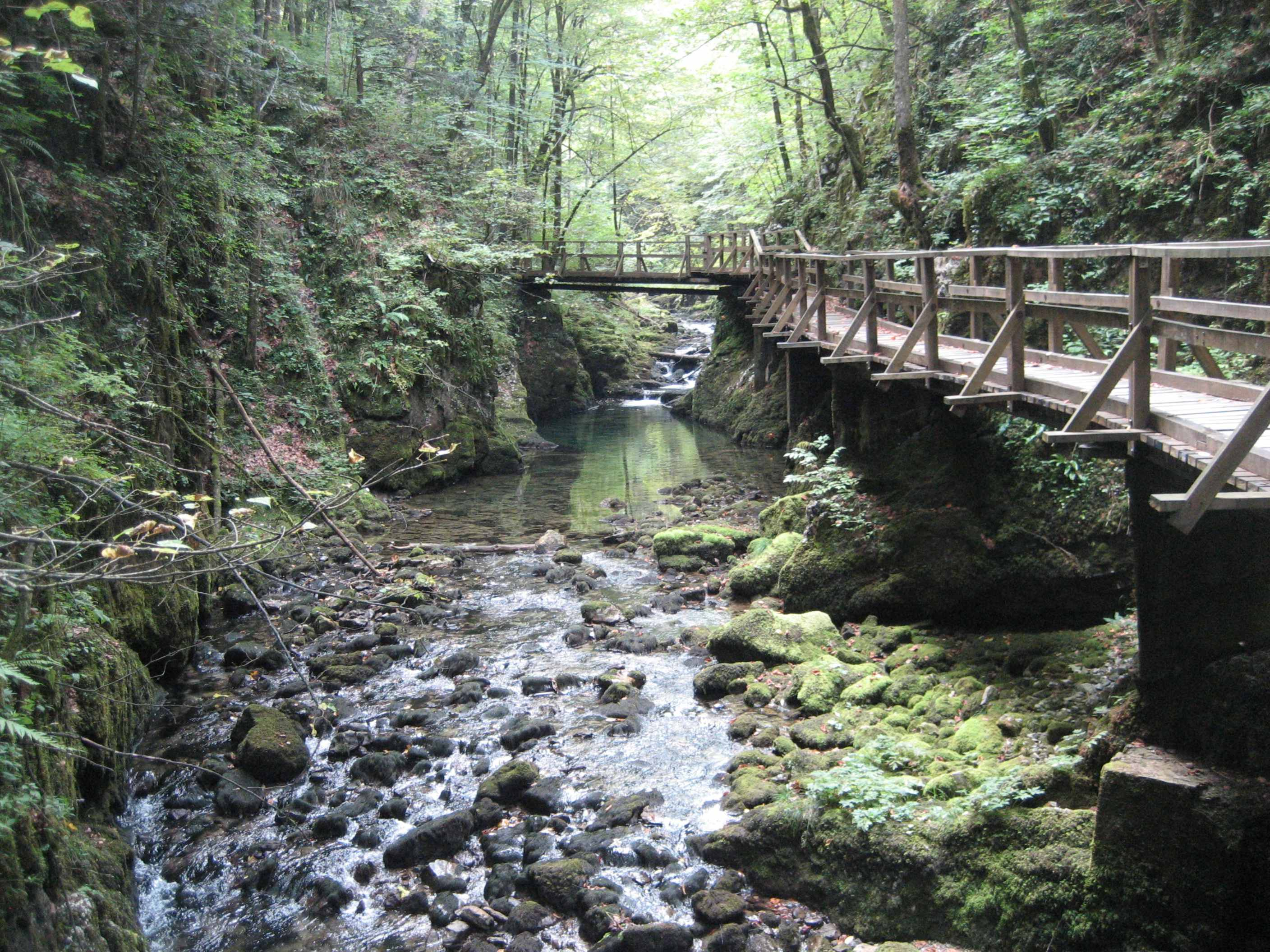 Kamacnik08,_Croatia